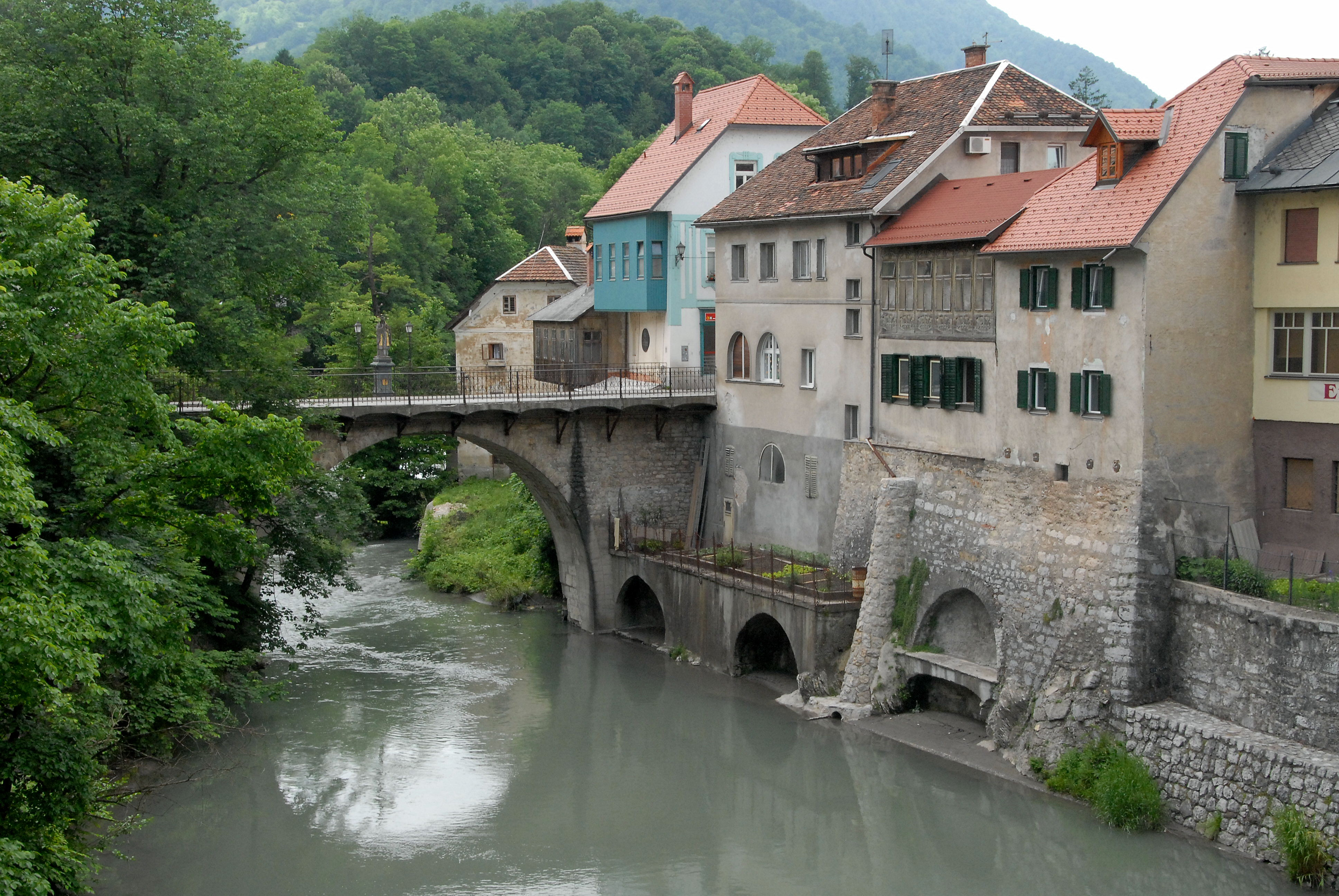 Capuchin bridge across the Sora river in Škofja Loka, Gorenjska, Slovenia